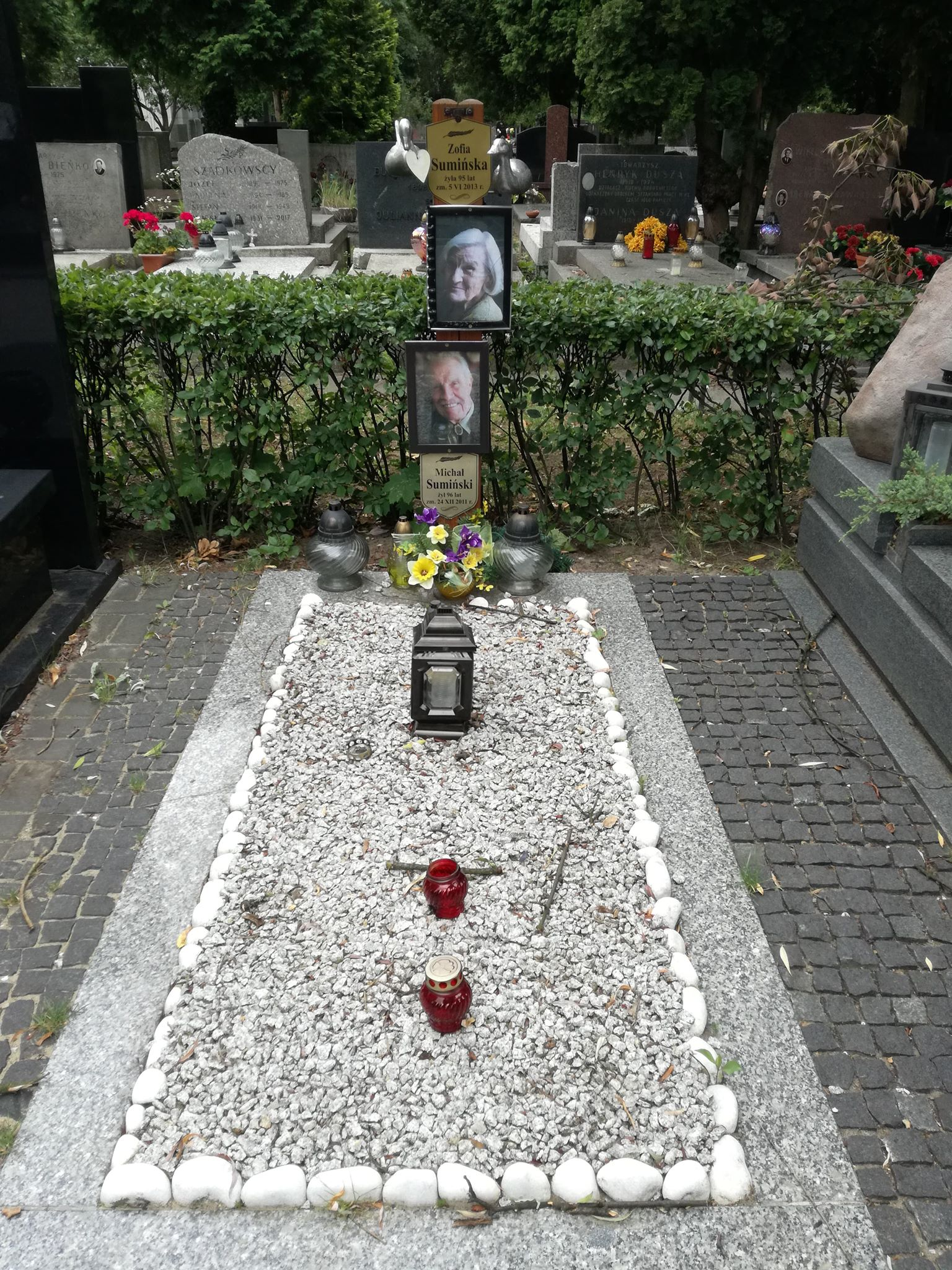 The grave of Michał Sumiński and Zofia Sumiński at the Military Cemetery in Powązki in Warsaw, July 1, 2018.